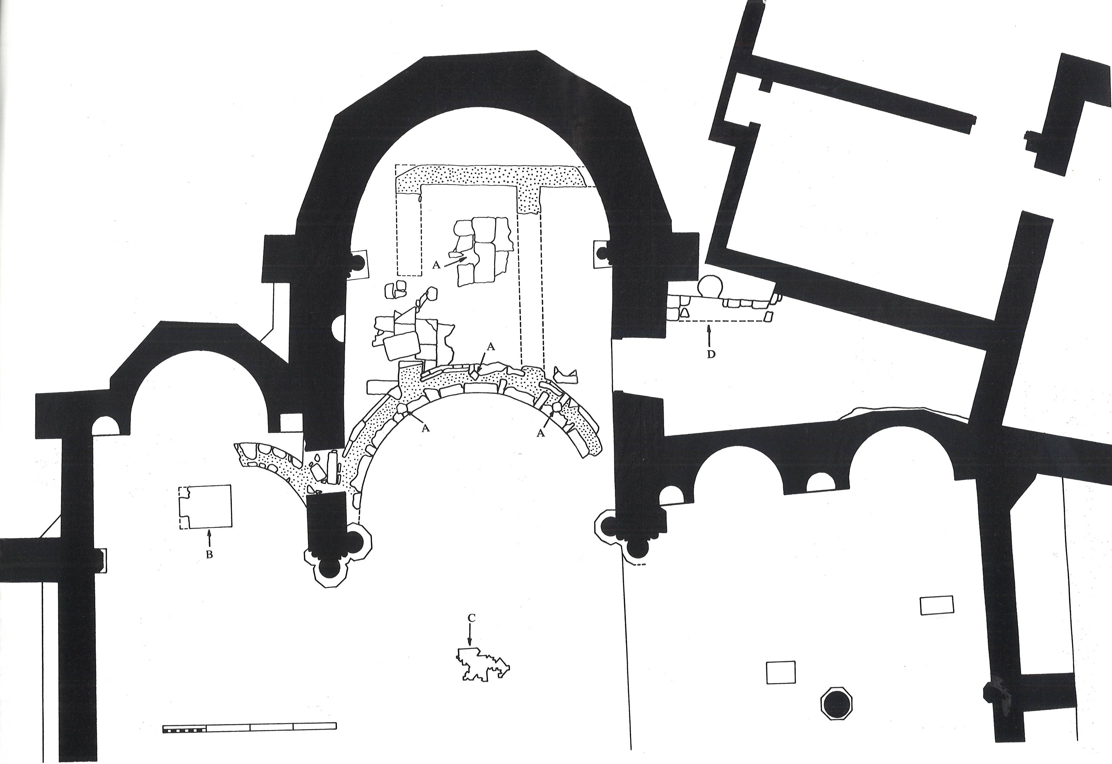 Bedestan, Nicosia. Plan of the east end made in 1981 showing early Byzantine apse.